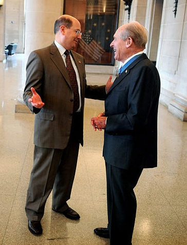 ANNAPOLIS, Md. (Dec. 15, 2008) Secretary of the Navy (SECNAV) the Honorable Dr. Donald C. Winter visits with Medal of Honor recipient retired Navy Capt.Thomas J. Hudner, Jr. after a "Visions of Valor" portrait unveiling in Bancroft Hall at the U.S. Naval Academy. Hudner and 139 other military Medal of Honor recipients are celebrated in the "Visions of Valor" portrait collection. Hudner is the only living Naval Academy alumnus with the Medal of Honor. (U.S. Navy photo by Mass Communication Specialist 2nd Class Kevin S. O'Brien/Released)